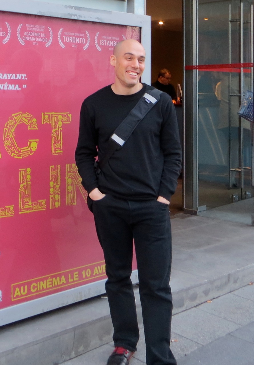 Joshua Oppenheimer at French cinema release